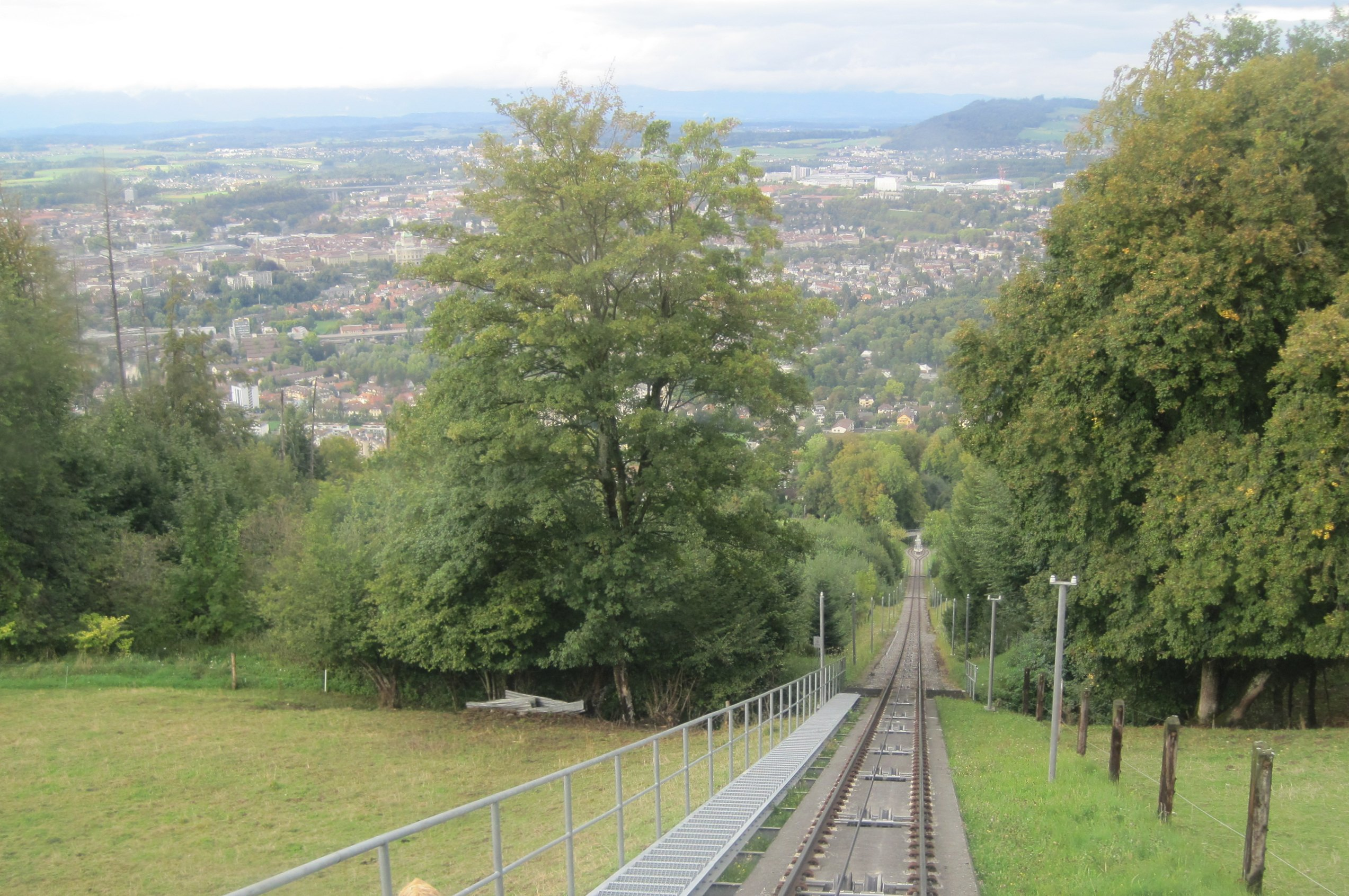 Radiotower Chasseral. On the left trigonometric point (Pyramidensignal).